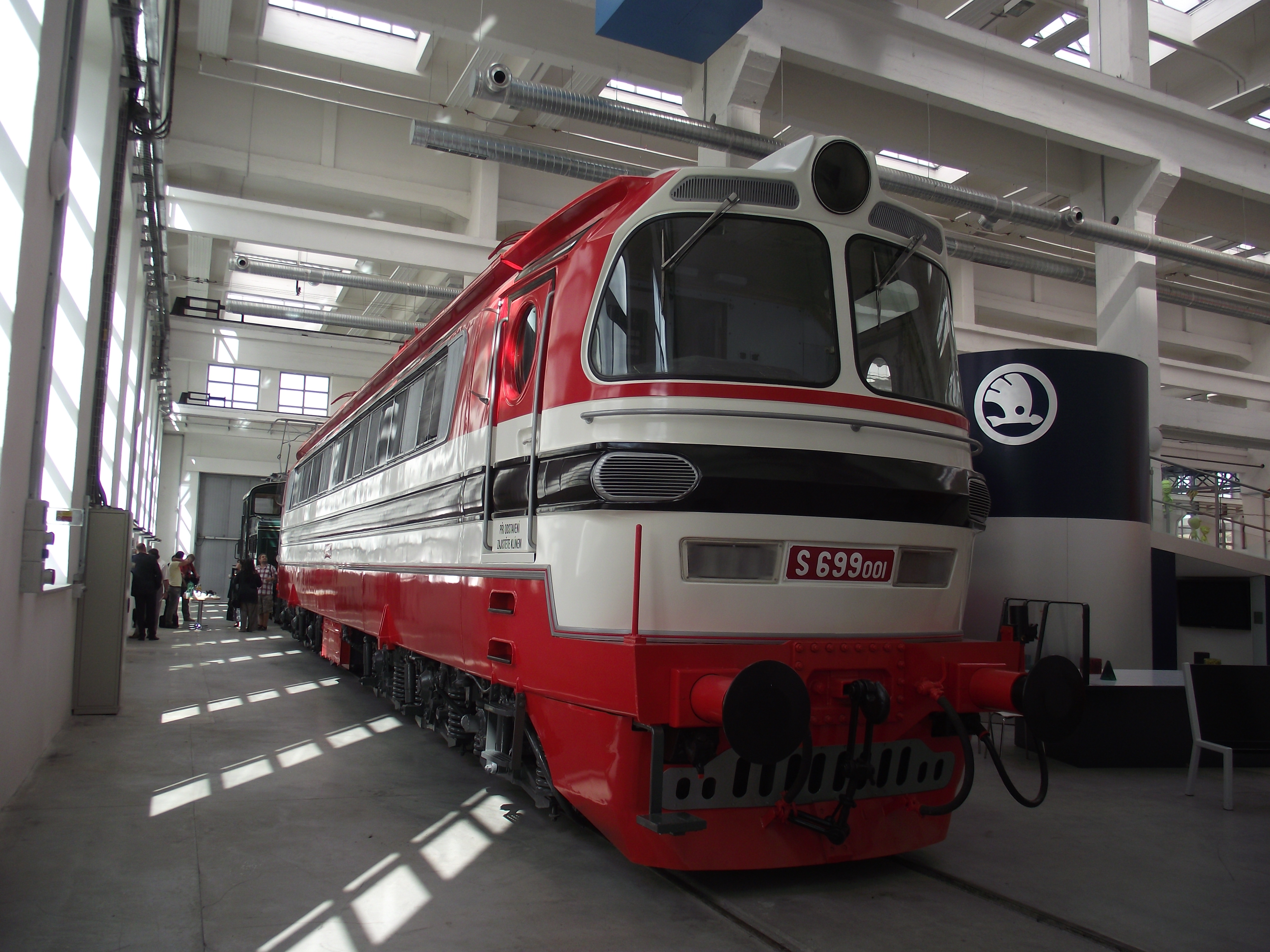 ŠKODA 32E